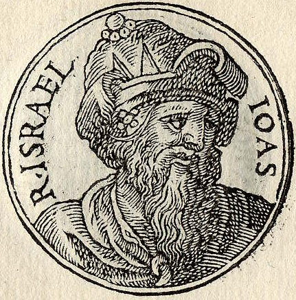 Jehoash of Israel was the king of the ancient Kingdom of Israel and the son of Jehoahaz, (2 Kings 14:1; compare 12:1; 13:10).